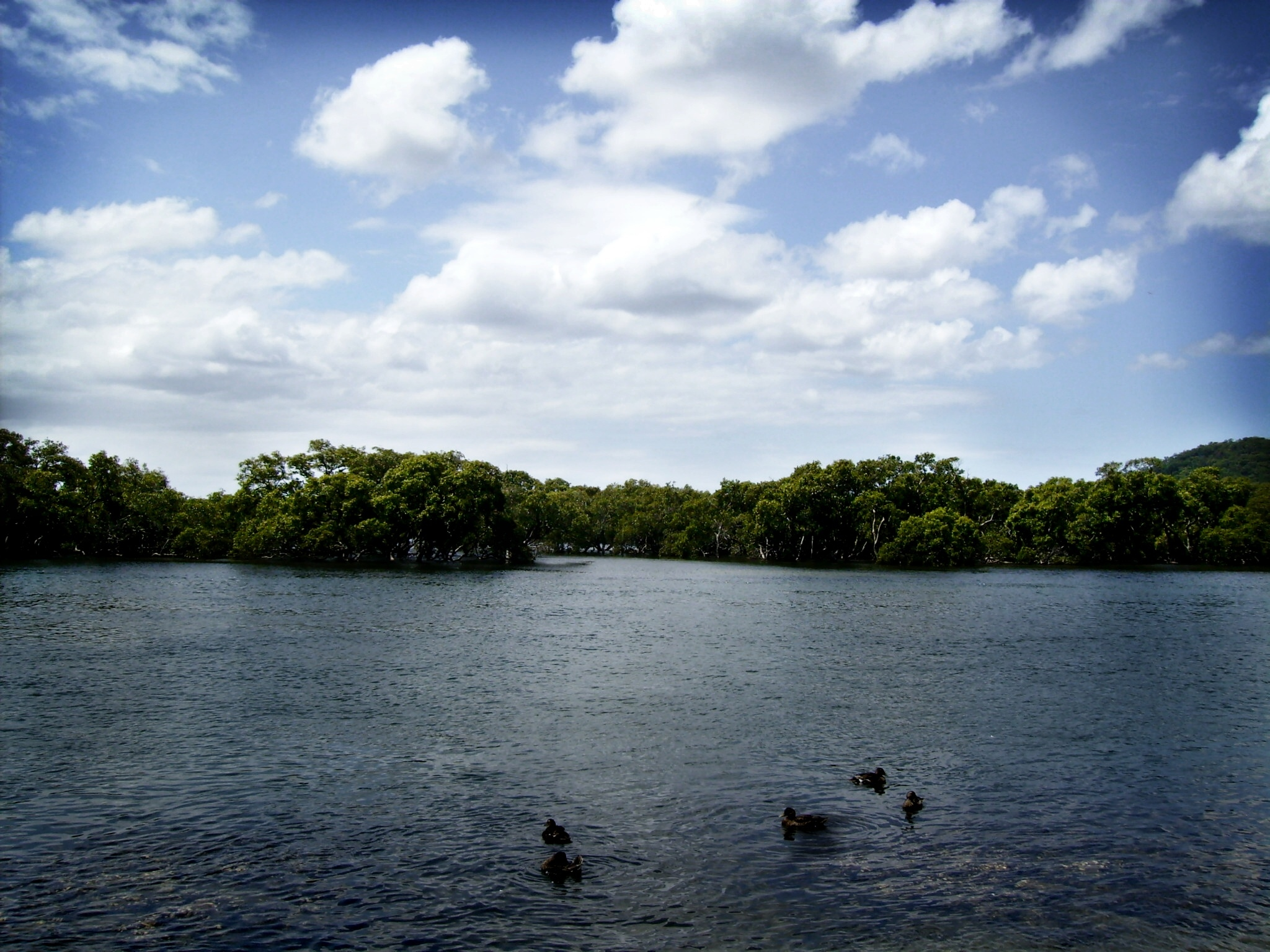 Woy Woy Channel with post-shoot vignetting